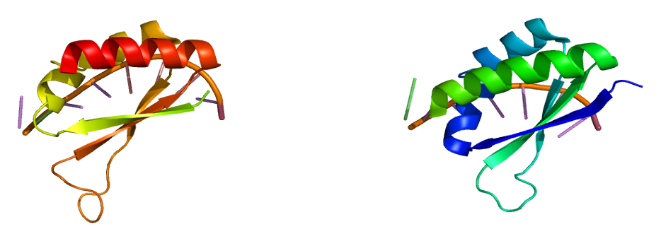 Structure of the FUBP1 protein. Based on PyMOL rendering of PDB 1j4w.